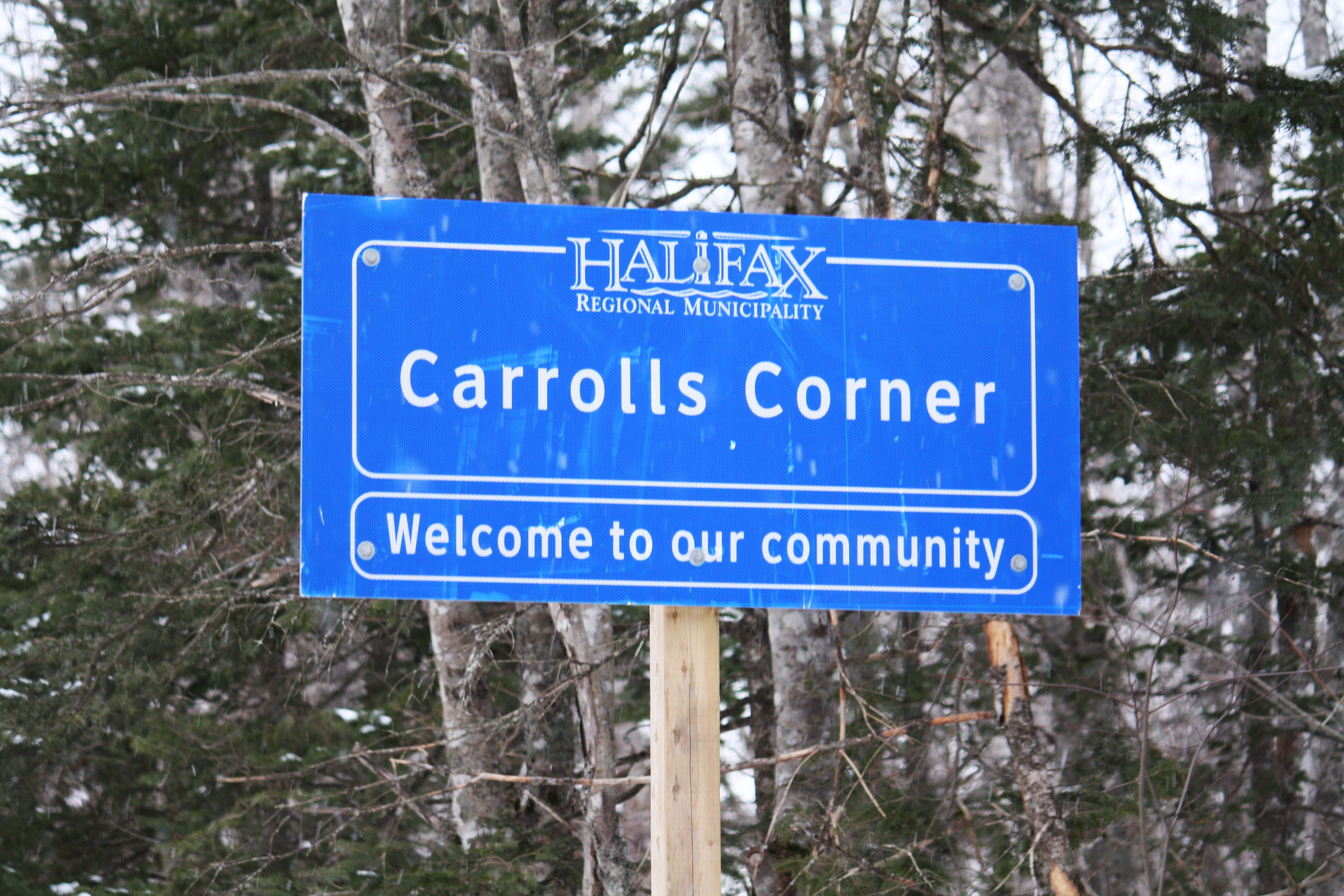 Halifax Regional Municipality "Welcome to Our Community" sign for Carrolls Corner.